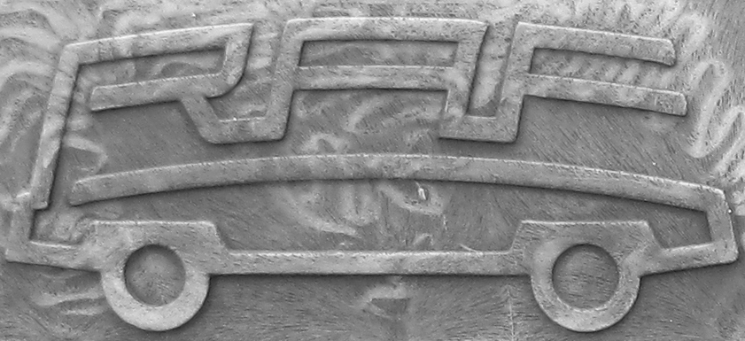 Logo of RAF.